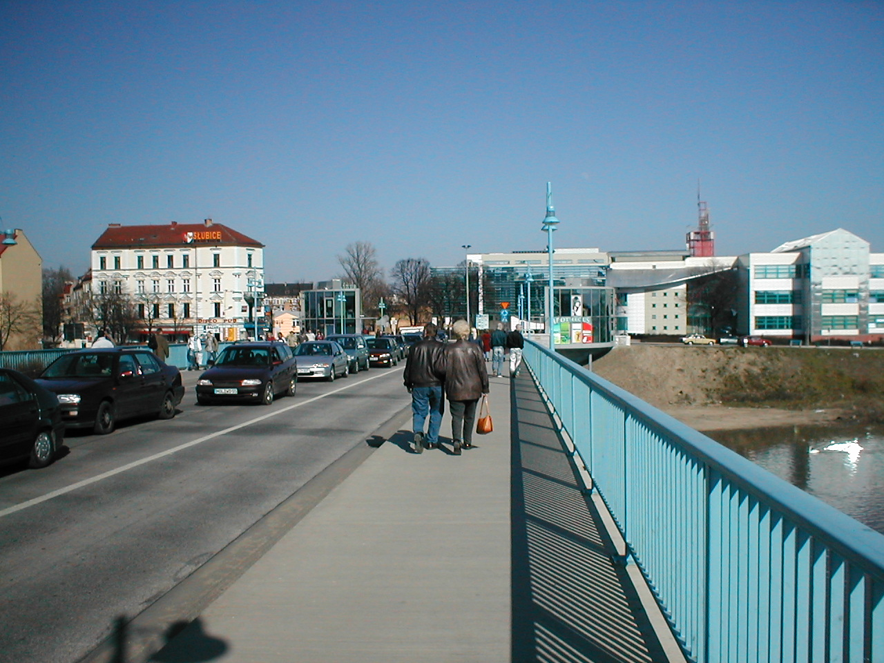 Słubice, Poland view from Oder bridge leaving Germany by User:Jorges